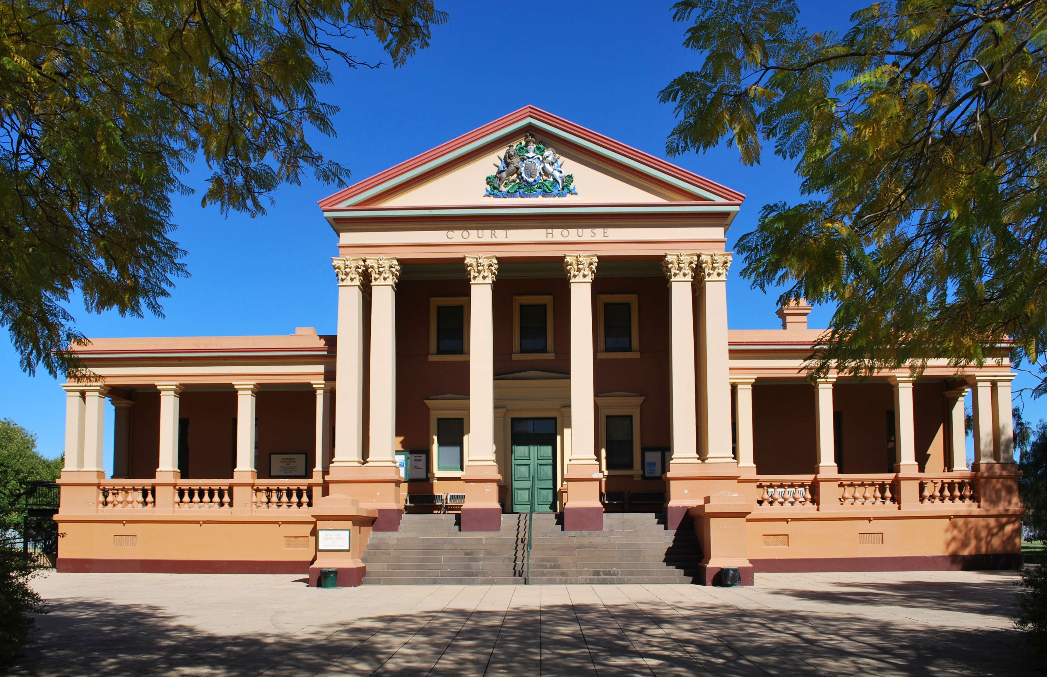 Court house at Deniliquin, New South Wales